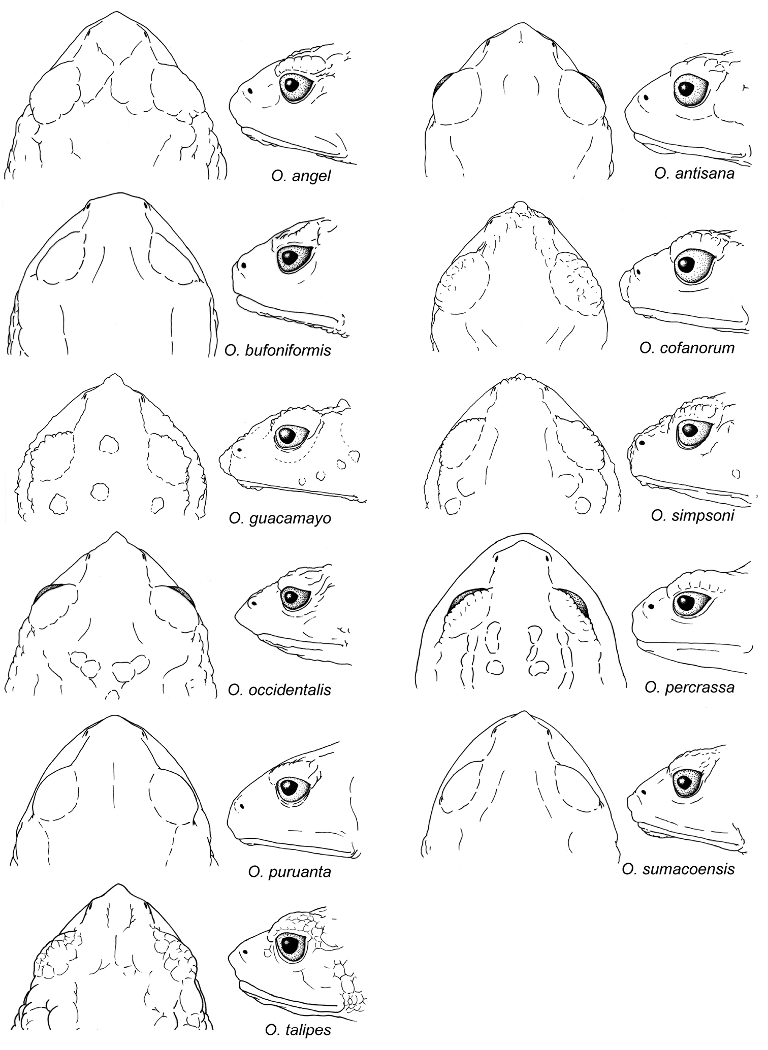 Head shape in dorsal and lateral view of Osornophryne females. Illustrated species are: Osornophryne angel, QCAZ 43560; Osornophryne antisana, QCAZ 48221; Osornophryne bufoniformis, QCAZ 40122; Osornophryne cofanorum, DH-MECN 6194; Osornophryne guacamayo, QCAZ 26047; Osornophryne simpsoni, DH-MECN 5260; Osornophryne occidentalis, QCAZ 43498; Osornophryne percrassa, ICN 319; Osornophryne puruanta, QCAZ 11471; Osornophryne sumacoensis, QCAZ 41244; Osornophryne talipes, EPN 2823. Not drawn at scale.